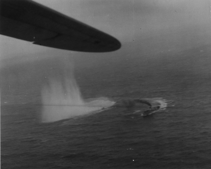 LTJG Finnie's Catalina: U-135 had just been forced to the surface after a series of depth charge attacks by HMS Mignonette, Balsam and Rochester. H.M.S. Mignonette maneuvers to starboard of U-135 as depth charge plumes from LTJG Finnie's depth charge attack subside